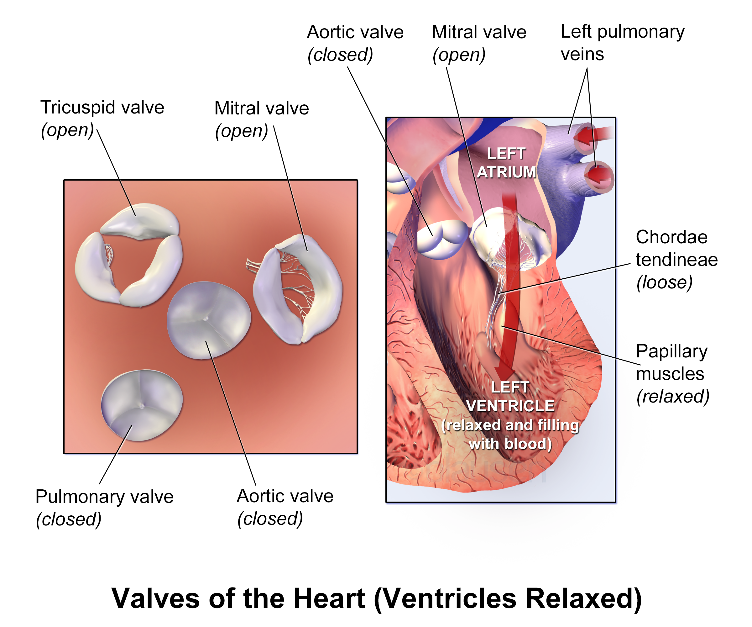 All illustrations donated by Blausen. Please visit our website to see full animations of these medical topics.